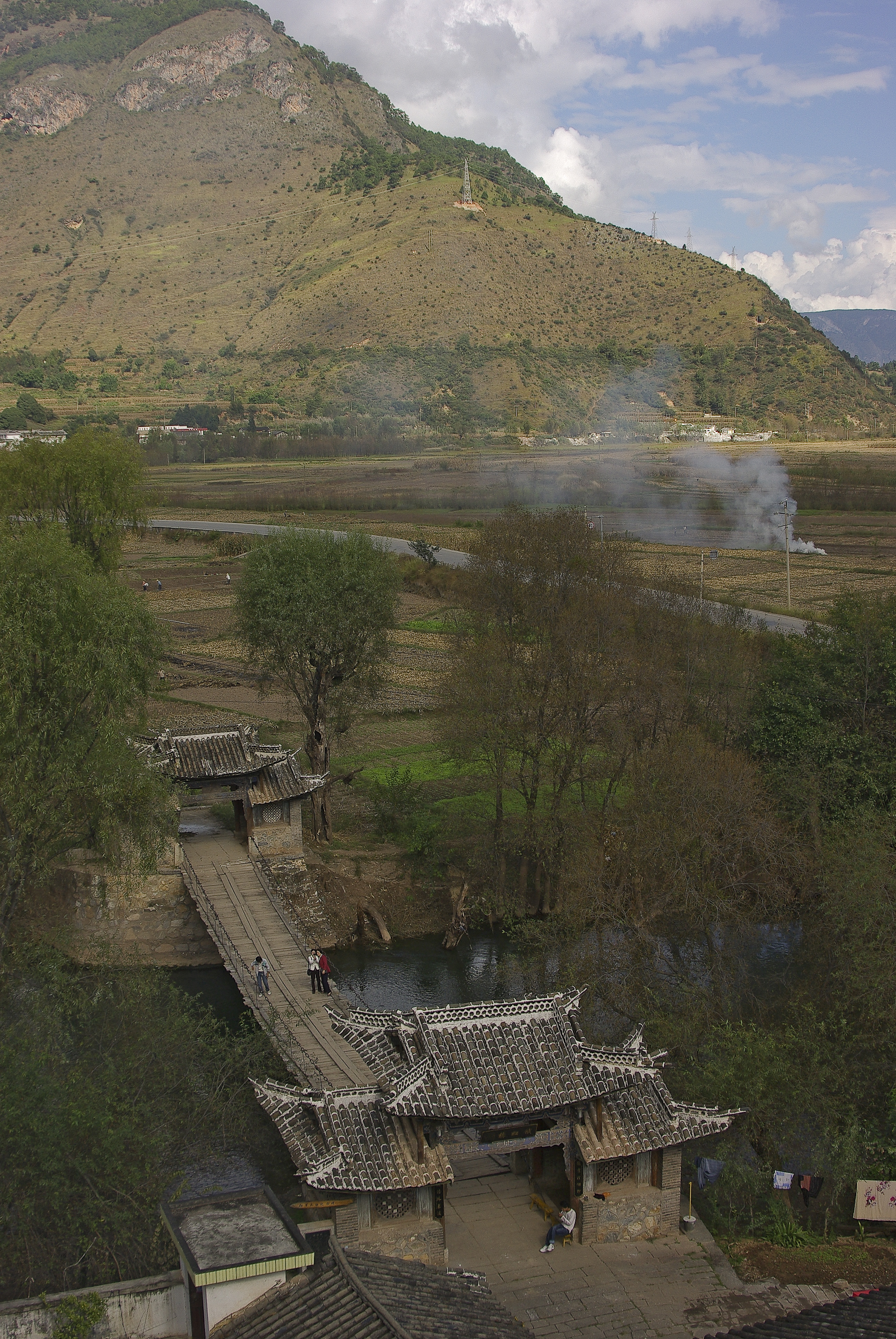 Old houses Shigu village, an ancient Naxi settlement near the first bend of the Yangzi River in China, and on the Yunnan Tibet Highway. 2008 This view shows the 200-year old bridge which crosses a tributary of the Yangzi. Think we established the crossing is 2000 years old, but surely not its components! China 2008